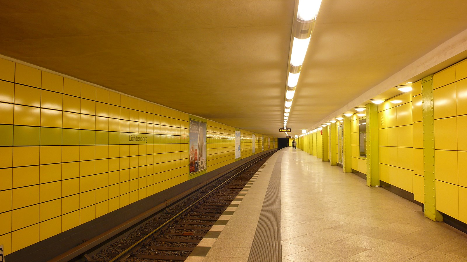 Lichtenberg subway